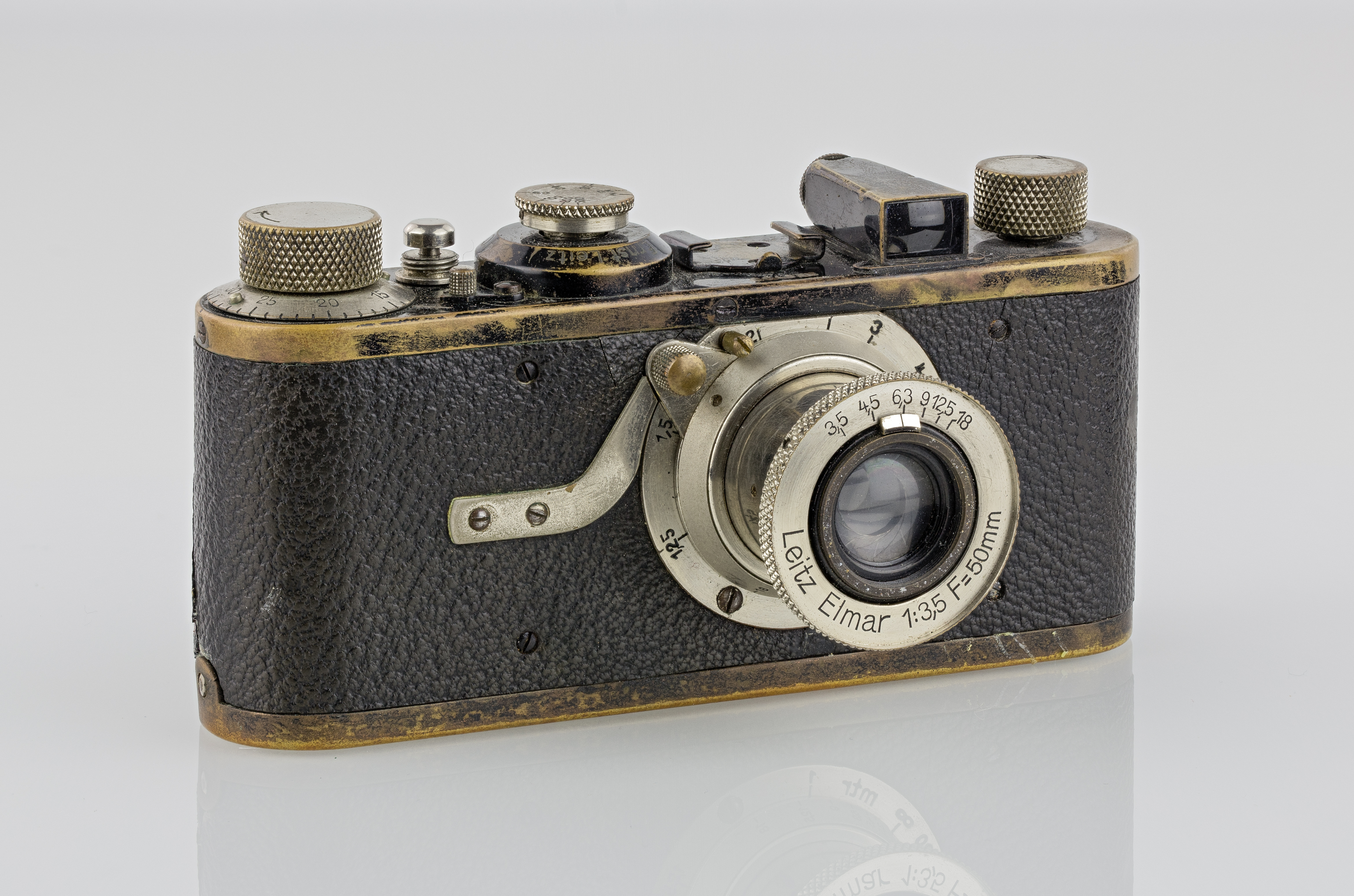 Leica Mod. Ia (1927), production number 5193, production time 1925-1936, Leitz Elmar F=50mm, 1:3.5